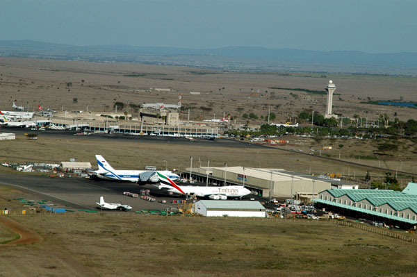 Aerial photograph of the Jomo Kenyatta International Airport (NBO/HKJK) in Nairobi, Kenya